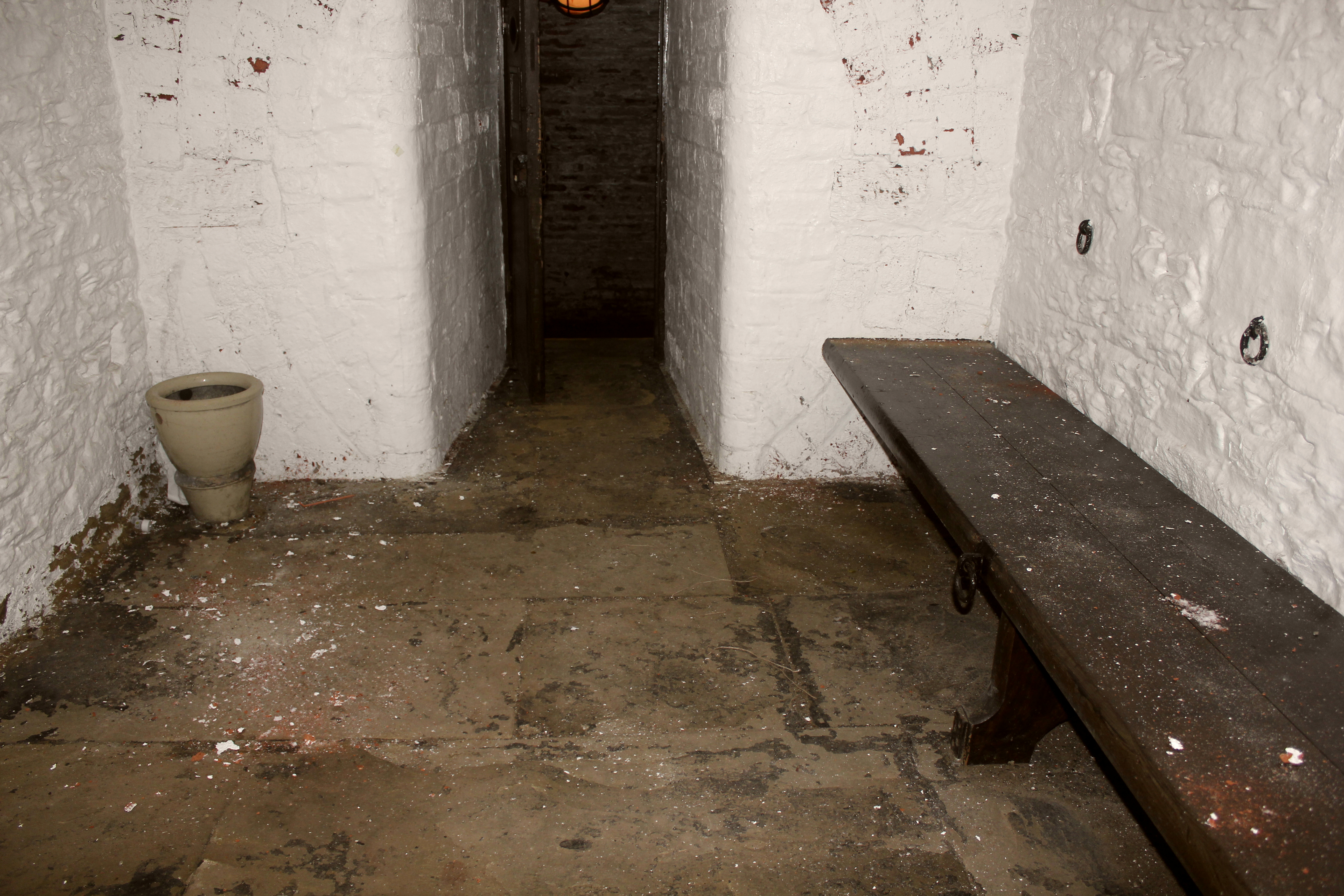 The police cells under the Town Hall, Leeds, West Yorkshire, England. Designed by Cuthbert Brodrick, built 1853-1858. The Victoria hall and former courtrooms of the town hall are raised above a slope, so that the crypt containing the police cells is at ground floor level at the back, and at basement level at the front. Showing one of the cells under the Town Hall entrance lobby. The corridor for these cells is beneath the Town Hall steps, and that corridor drips like a dungeon when it rains. This cell has a Victorian brown clay lavatory with no flushing mechanism. Material just drops straight into a sewer or sewage pit below.